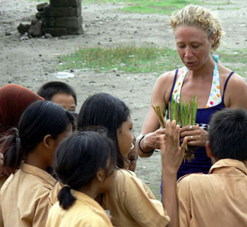 Delphine Robbe with children and vetiver grass